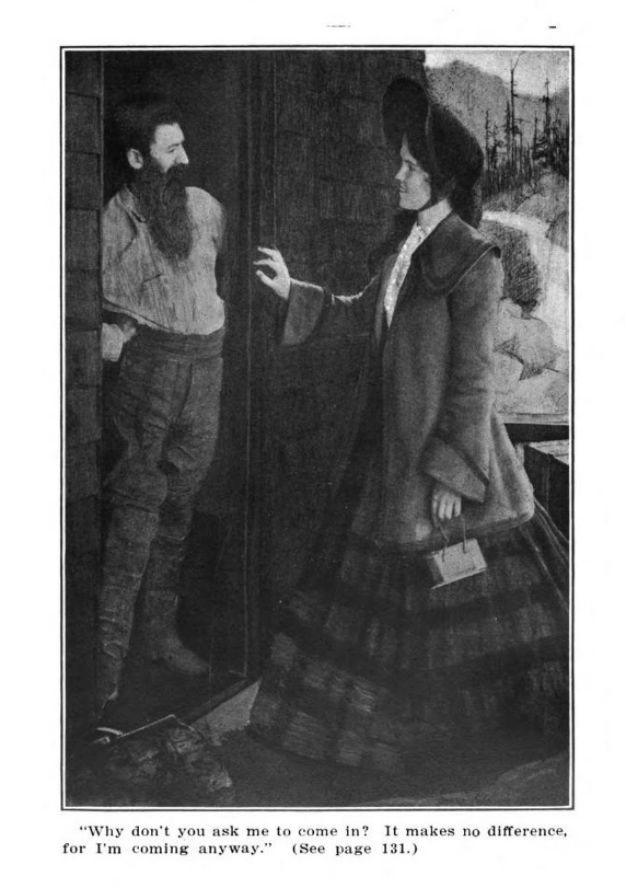 Illustration from Leaves from an Argonaut's note book: a collection of holiday and other stories illustrative of the brighter side of mining life in pioneer days, by Judge T. E. (Theodore Elden) Jones, illustrated by Laura Adams Armer, Whitaker & Ray Co., 1905, page 130